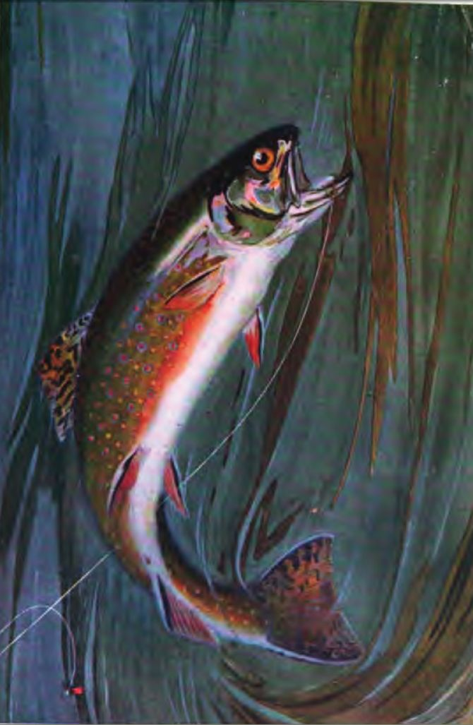 Brook Trout - Louis Rhead 1902 Frontpiece from The Speckled Brook Trout